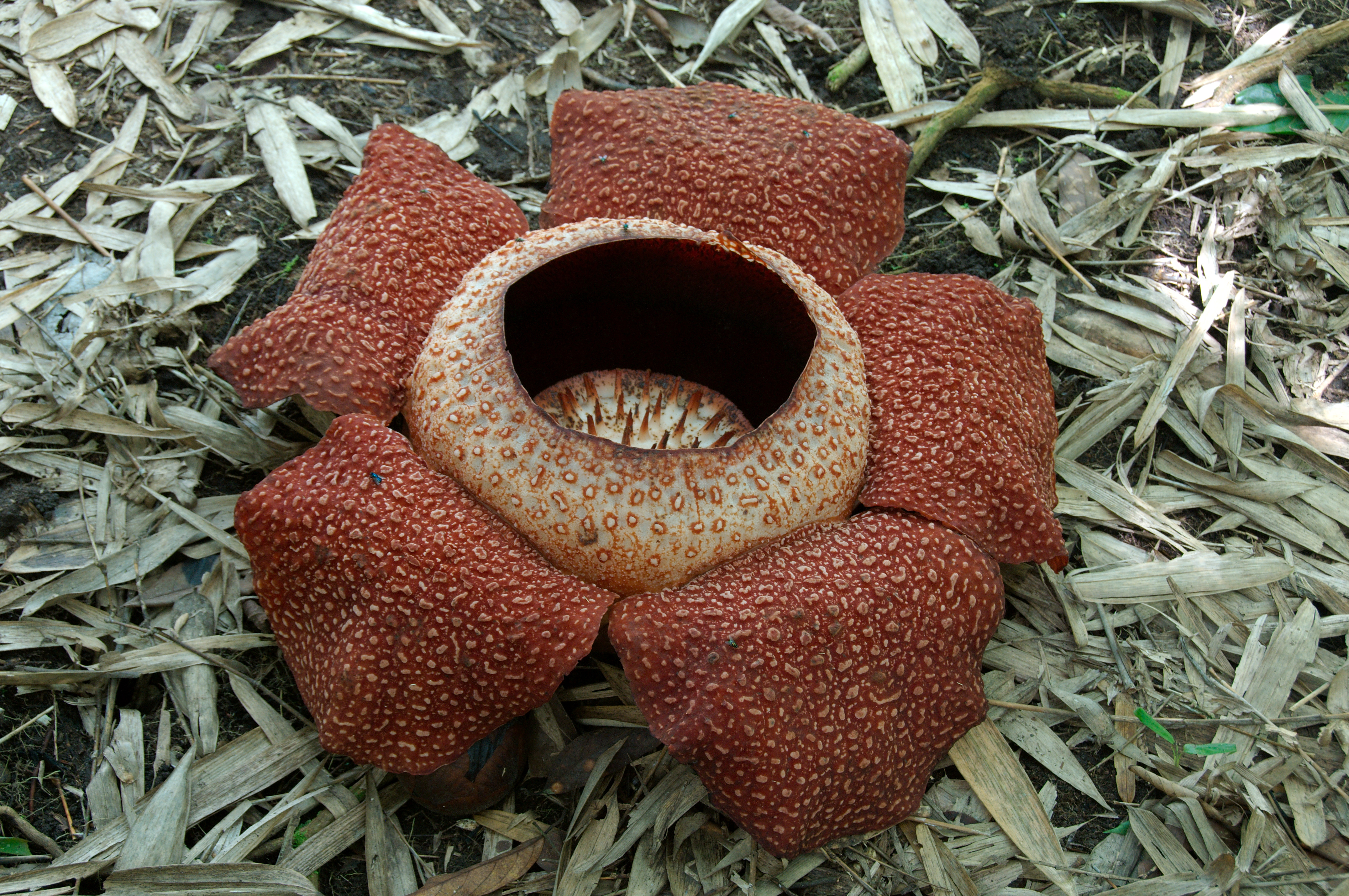 Rafflesia keithii near poring hot springs, Sabah province, Malaysia